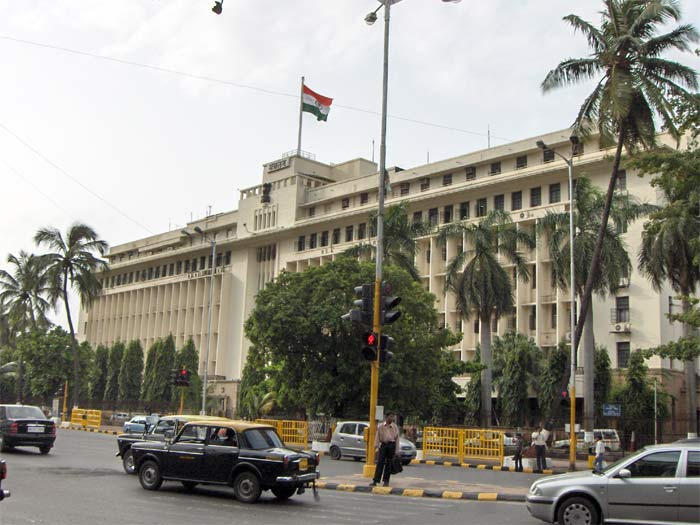 Mantralaya is the administrative headquarters of Maharashtra Source: Taken by me on 11-Aug-2005